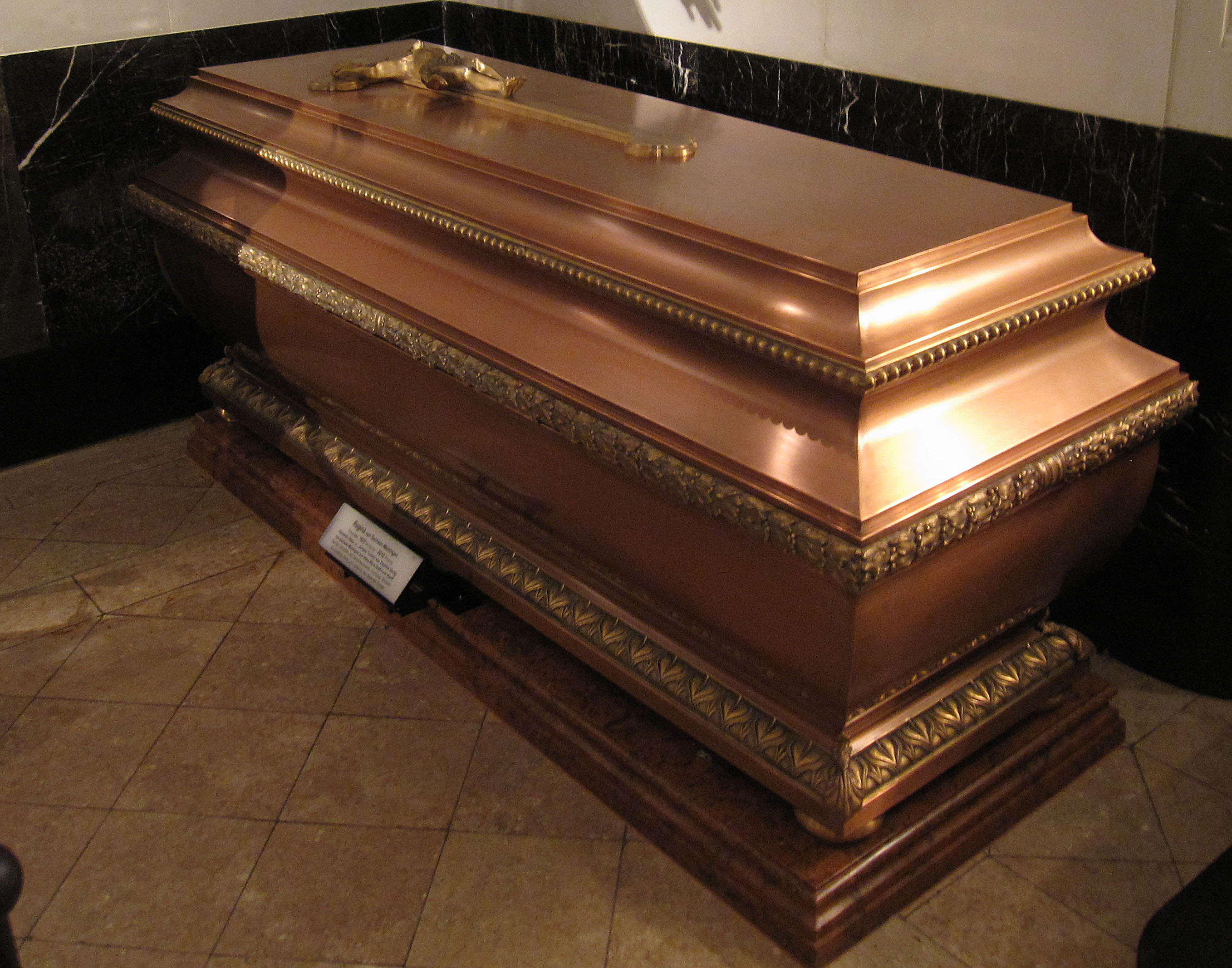 Sarcophagus of Princess Regina of Saxe-Meiningen, wife of Otto von Habsburg-Lothringen.